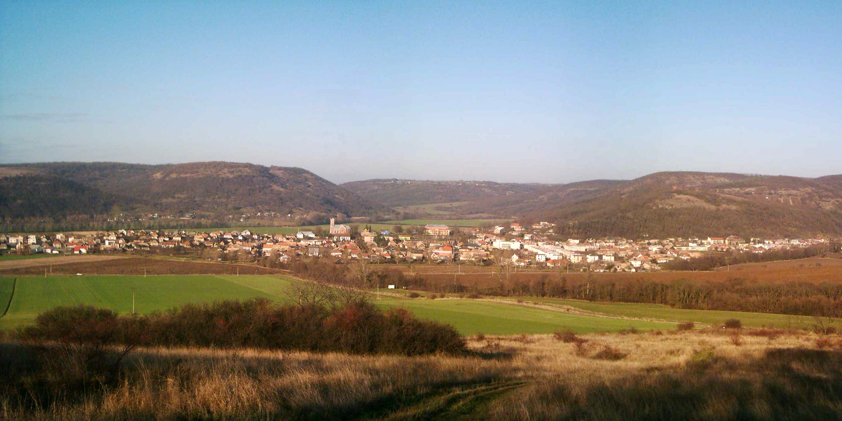 Plášťovce, Slovakia, panorama